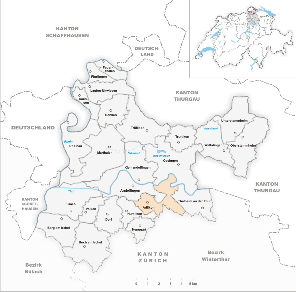 Municipality Adlikon